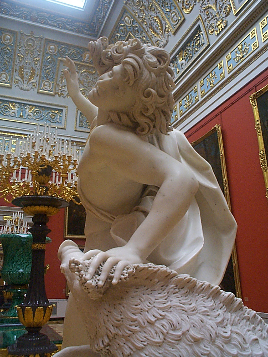 Creator: Giuseppe Mazzuoli (ca. 1644-1725). Title: The Death of Adonis. Location: Hermitage, St. Petersburg. Notes: Taught by Bernini, this sculptor reportedly took 30 years to complete this group.